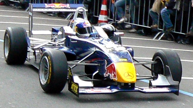 Sebastian Vettel (ASM) with a Dallara F305, Formula Three car.